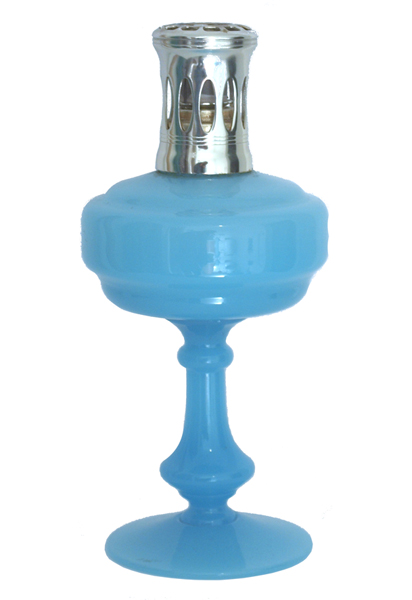 Lampe Berger "Opaline Bleue" made in 1978